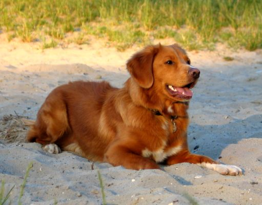 Nova Scotia Duck Tolling Retriever - Seawild's Taste Of Trouble